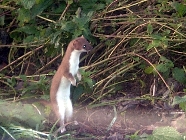 Least weasel (Mustela nivalis)